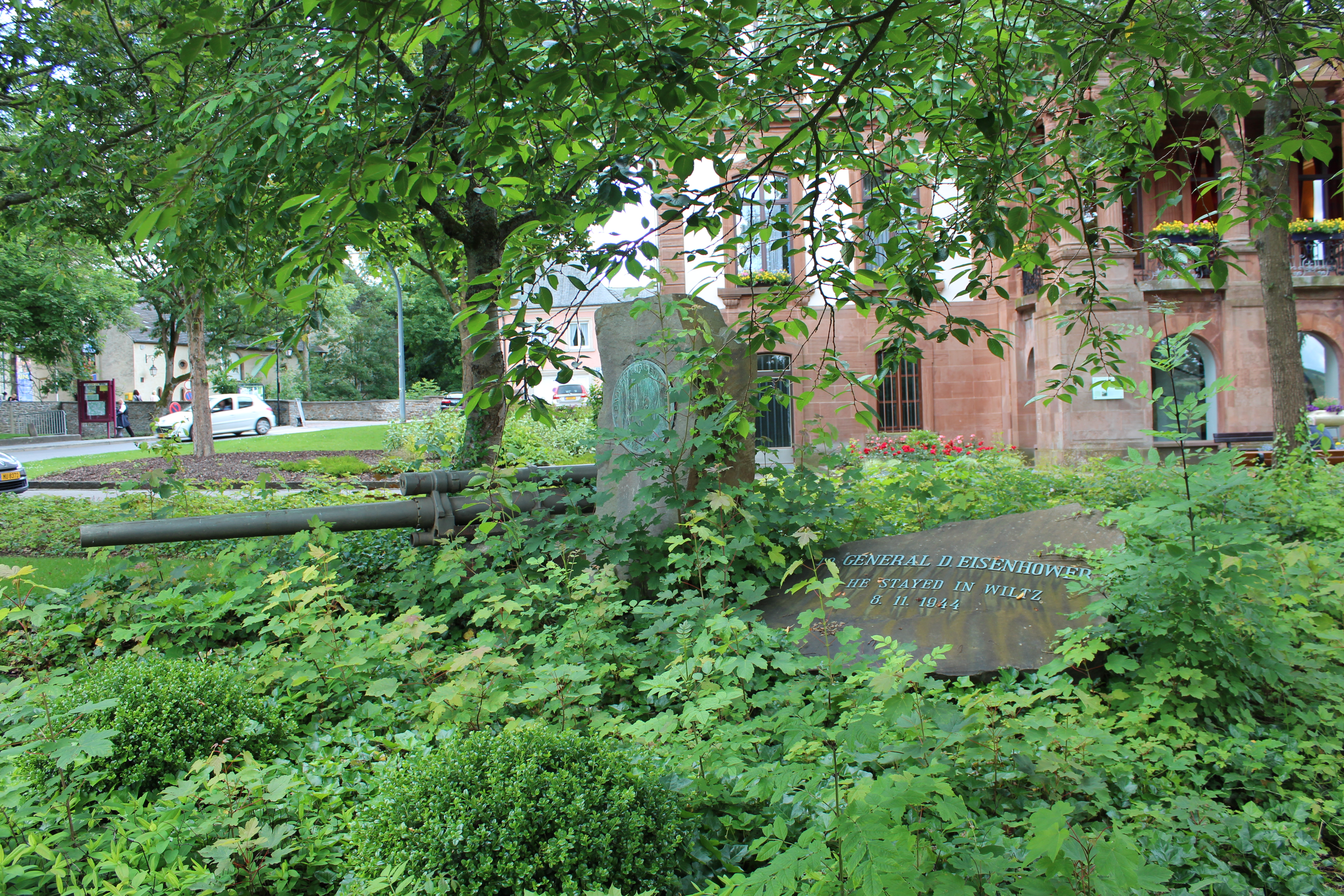 General D. Eisenhower Memorial in Wiltz, Luxembourg